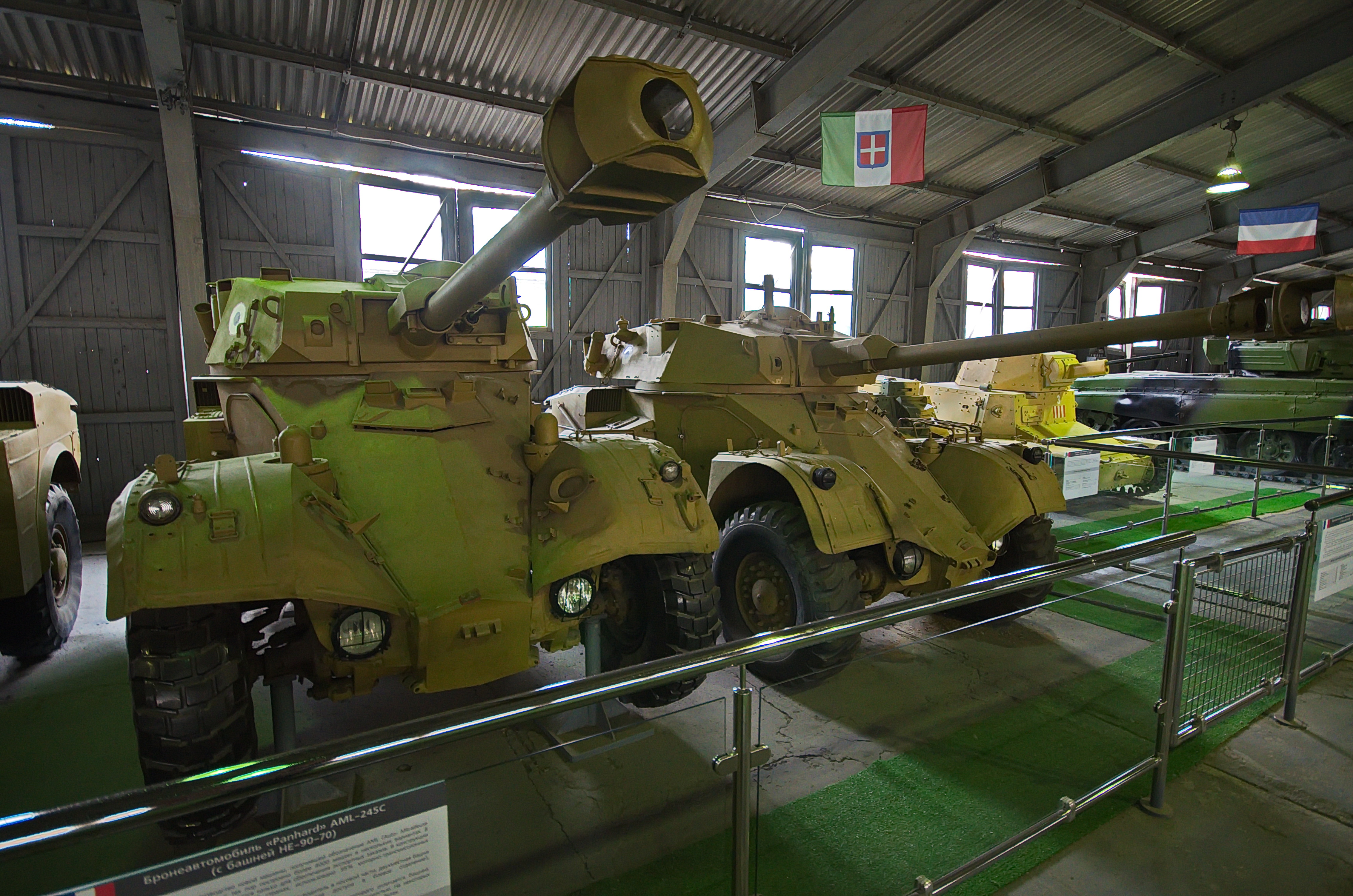 0770 - Moskau 2015 - Panzermuseum Kubinka. The vehicle on the left is a Panhard AML-90. The one on the right is an Eland-90 (likely a Mk4, Mk5, or Mk6), as evidenced by the Dunlop Trak Grip tyres, additional radio antennae, the number of lug nuts, and the pintle mount on the turret roof.